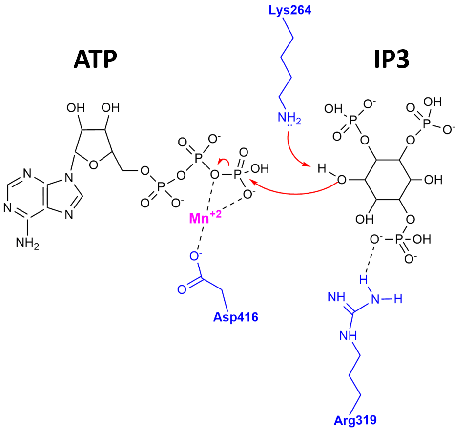 The nucleophilic attack of the gamma-phosphate of ATP by the 3'OH of inositol 1,4,5-trisphosphate is depicted. The mechanism for this phosphoryl transfer reaction was elucidated when the X-ray crystal structure of ITP3K was determined (Gonzalez et al., 2004). Hydrogen bonds are represented as dotted lines. Select ITP3K amino acids are shown in blue. Red arrows represent electron pushing. A metal cofactor (Mn2+, magenta) and a highly conserved Asp416 are essential for positioning the ATP beta- and gamma-phosphates. Arg319 (among other amino acids that are not shown) is involved in orienting IP3. Lys264 is most likely involved in neutralizing the negative charge that develops on phosphate, and it may also serve as a general base (hydrogen acceptor) for the 3'OH of IP3.